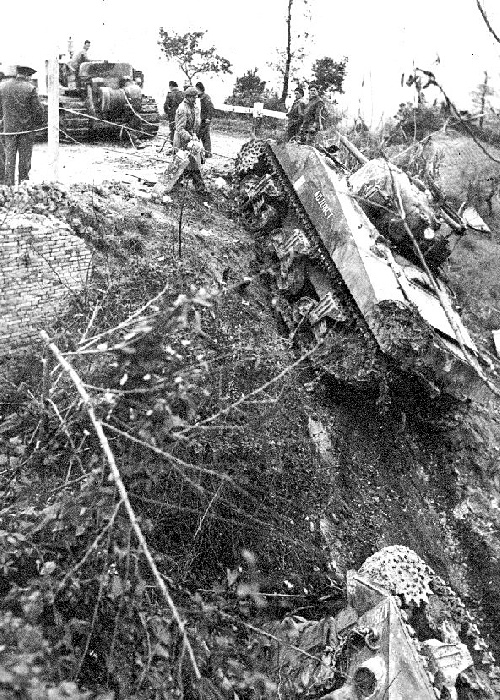 Canadian Sherman driven off the road north of San Leonardo di Ortona, Italy